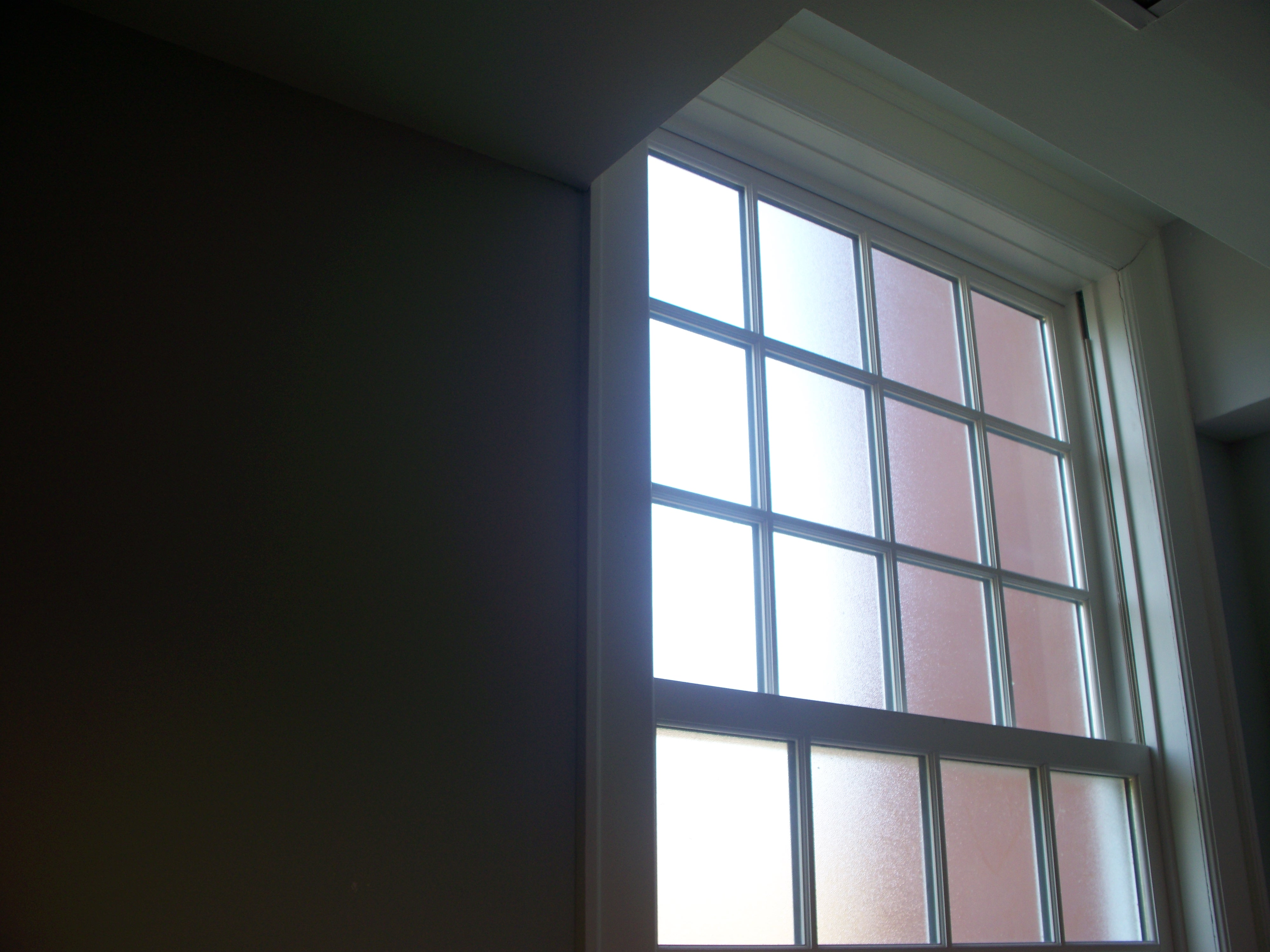 The frosted glass window lets some light into the dark restroom.